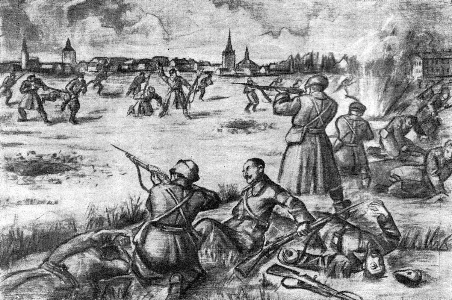 Battle of Joala on 28 November 1918.